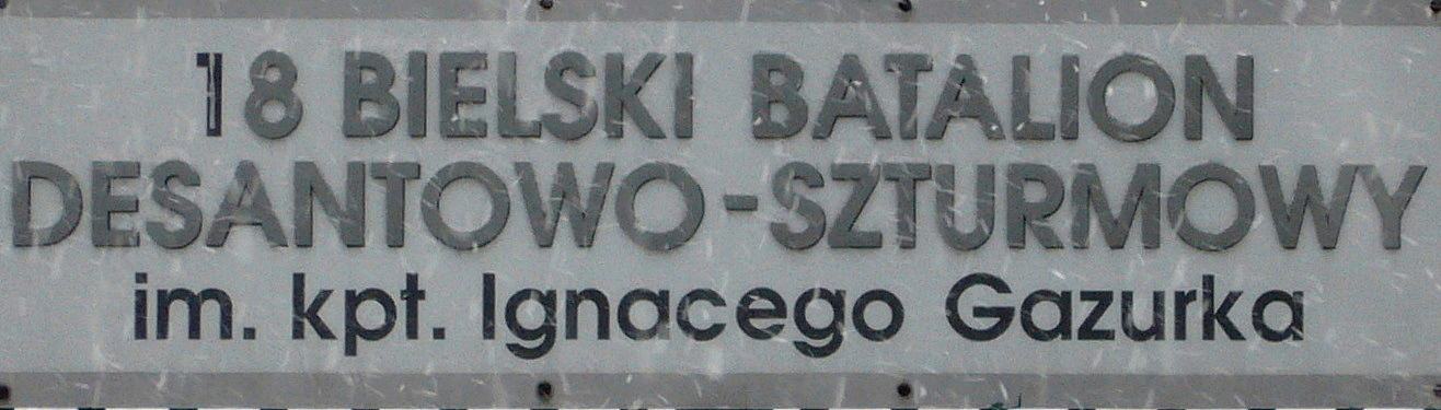 18 Bielski Batalion Desantowo-Szturmowy im. kpt. Ignacego Gazurka – plaque on main gate of barracks in Bielsko-Biała, Poland.